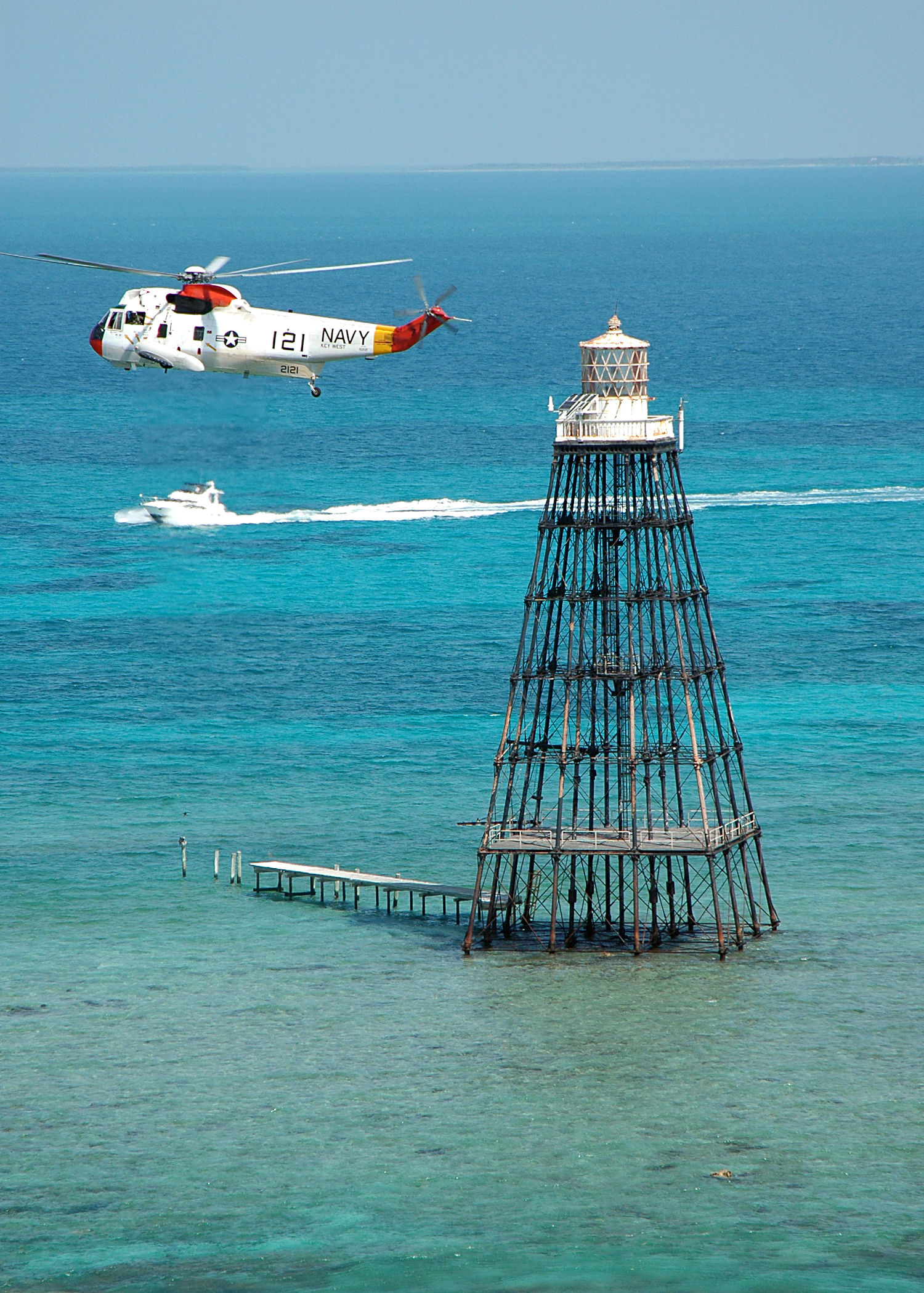 Key West, Fla. (May 24, 2005) - Naval Air Station (NAS) Key West's UH-3H Sea King helicopter flies over the Sand Key lighthouse off the coast of Key West during its last flight. The Sea King will be transferred to NAS Pensacola, Fla., on May 26, 2005, after serving as NAS Key West's search and rescue helicopter for almost a decade. At the controls for the last training flight were Lt. Gainey Maxell and Lt. Tony Martinez.